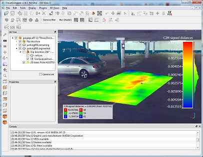 Screenshot of the CloudCompare V2.4 open-source software